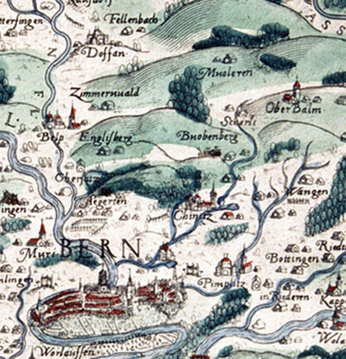 map of Bern of Doctor Thomas Schöpf dated 1580